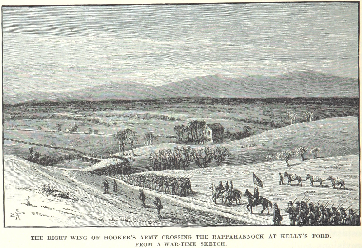 Union troops cross the Rappahannock River prior to the Battle of Chancellorsville.